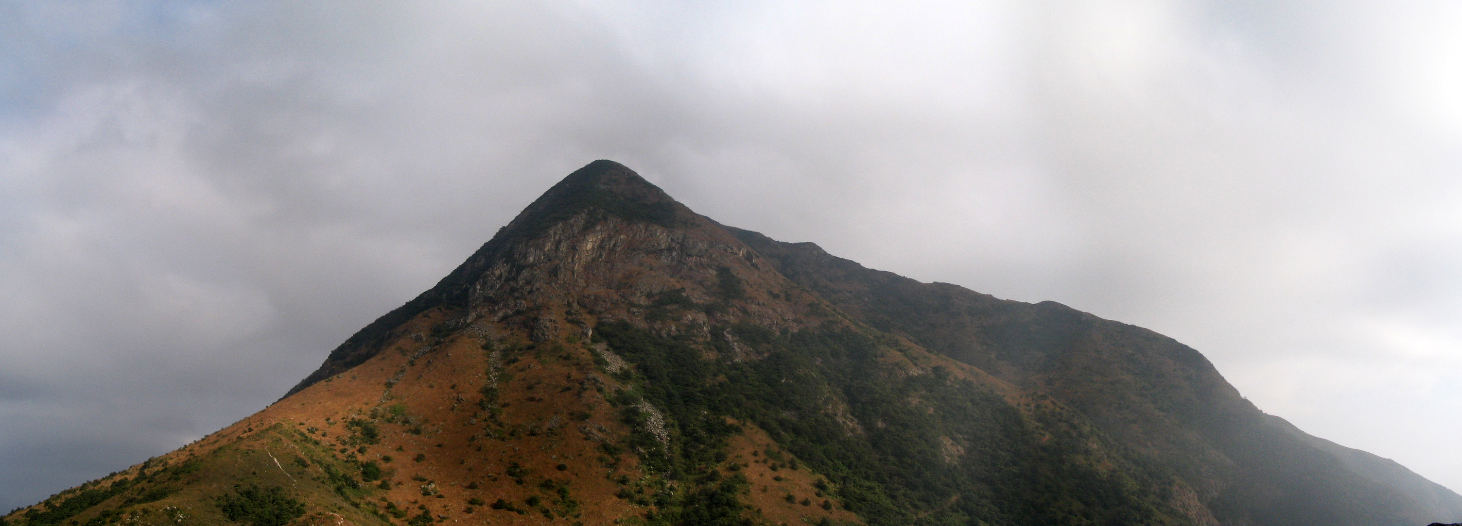 Panoramic photo of Lantau Peak, combined from 2114444003, 2115223848, 2114445551, 2115225524 and 2114447223